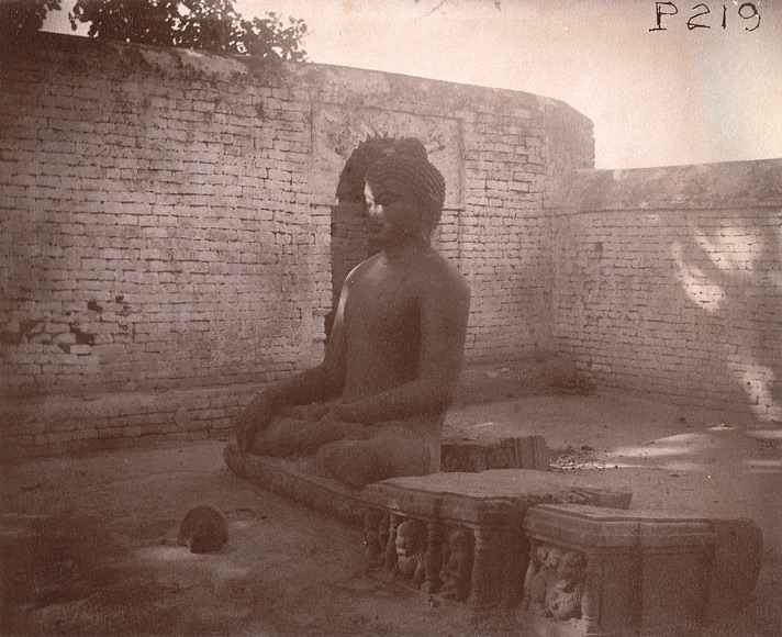 Photograph of a statue of Buddha from ancient Nalanda in Bihar.